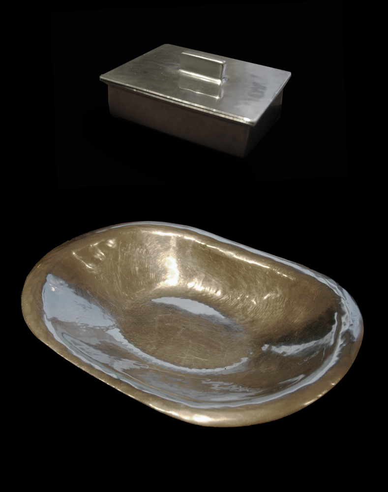 2 pieces - karl raichle